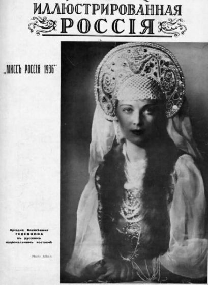 Miss Russia 1936. Ariadna Gedeonova # 1